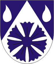 Coat of arms of Rakke vald, Estonia